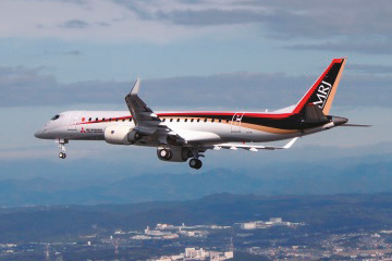 The MRJ on its first flight, accompanied by a Kawasaki T-4